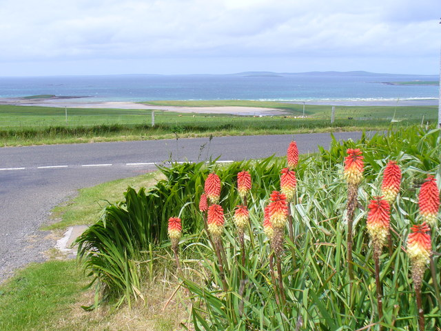 By Ward Hill, Shapinsay, Orkney islands The spinal road across the island runs north of its highest point at 64 metres (210 feet) high at Ward Hill. Many of the farms have these distinctive "red hot pokers", or kochia, blooming at the roadsides in June. In the distance here, beyond the pastures, is the tidal Ouse and Veantrow Bay.